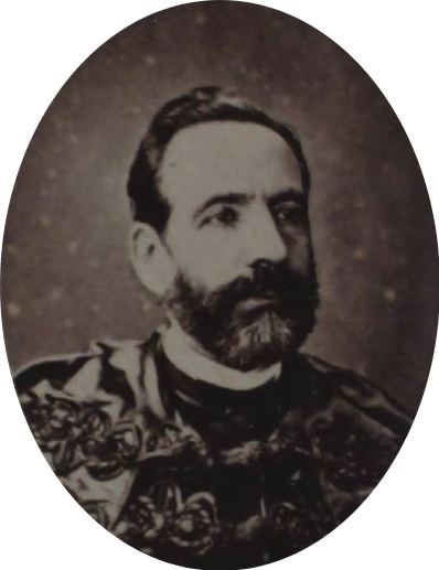 Bernardo de Serpa Pimentel (1817-1895), Professor and Librarian of the University of Coimbra from 1858 to 1894.